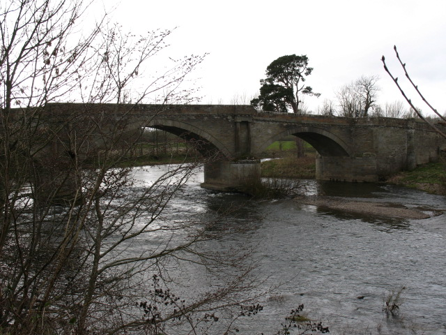 Teviot Bridge near Kelso A late 18th century stone bridge with some classical details. The builder was William Elliot in 1794-5.